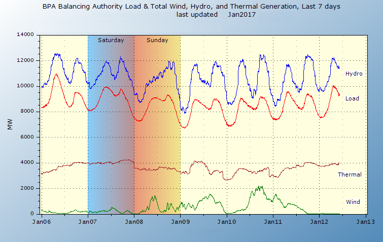 BPA Balancing Authority Load and Total Wind, Hydro, and Thermal Generation, Near-Real-Time